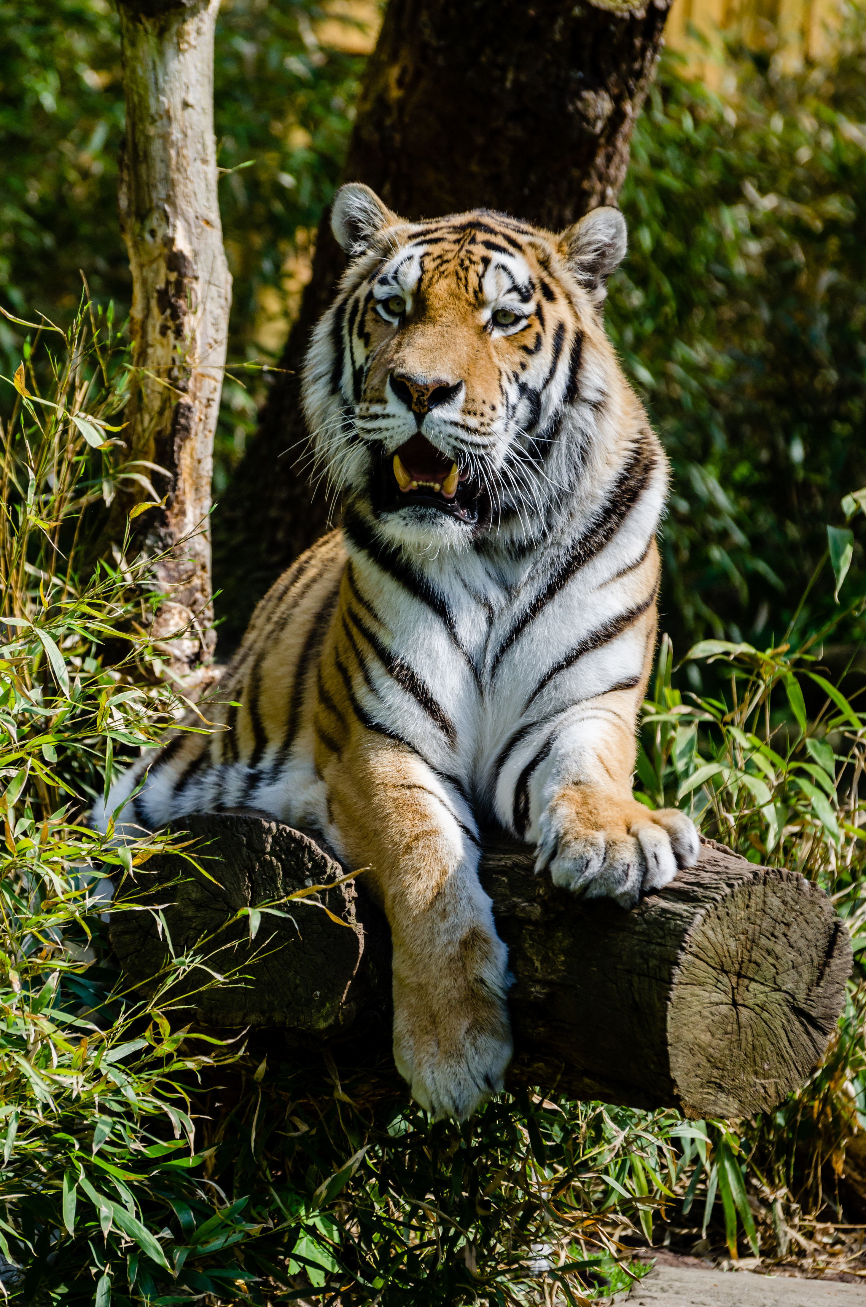 A photograph of an Amur Tiger at Münster Zoo